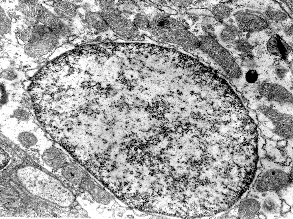 This electron micrograph images the cell nucleus of a chloride cell in a fish gill with 13950x magnification. Several mitochondria surround the nucleus.